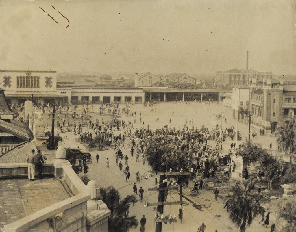 people gathering in front of Taipei Railway Station in the 228 Incident in Taiwan